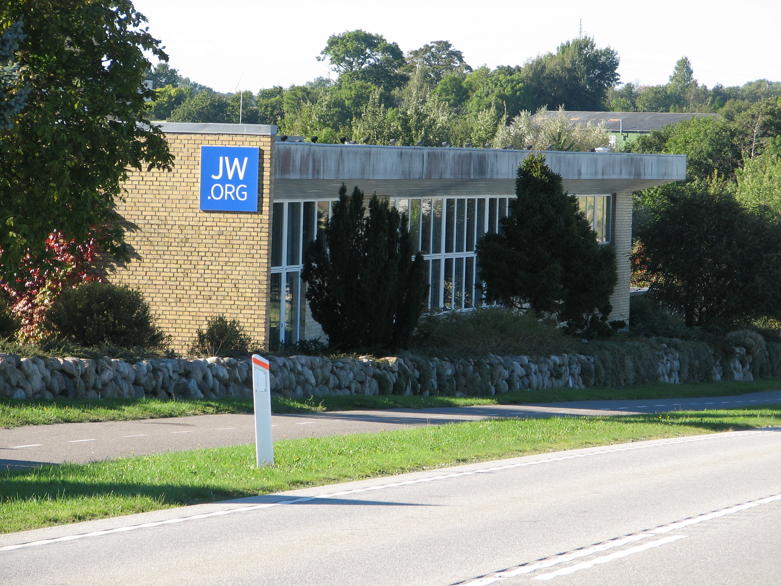 "Jehovah's Witnesses Assembly Hall" - Herlufmagle, Danmark